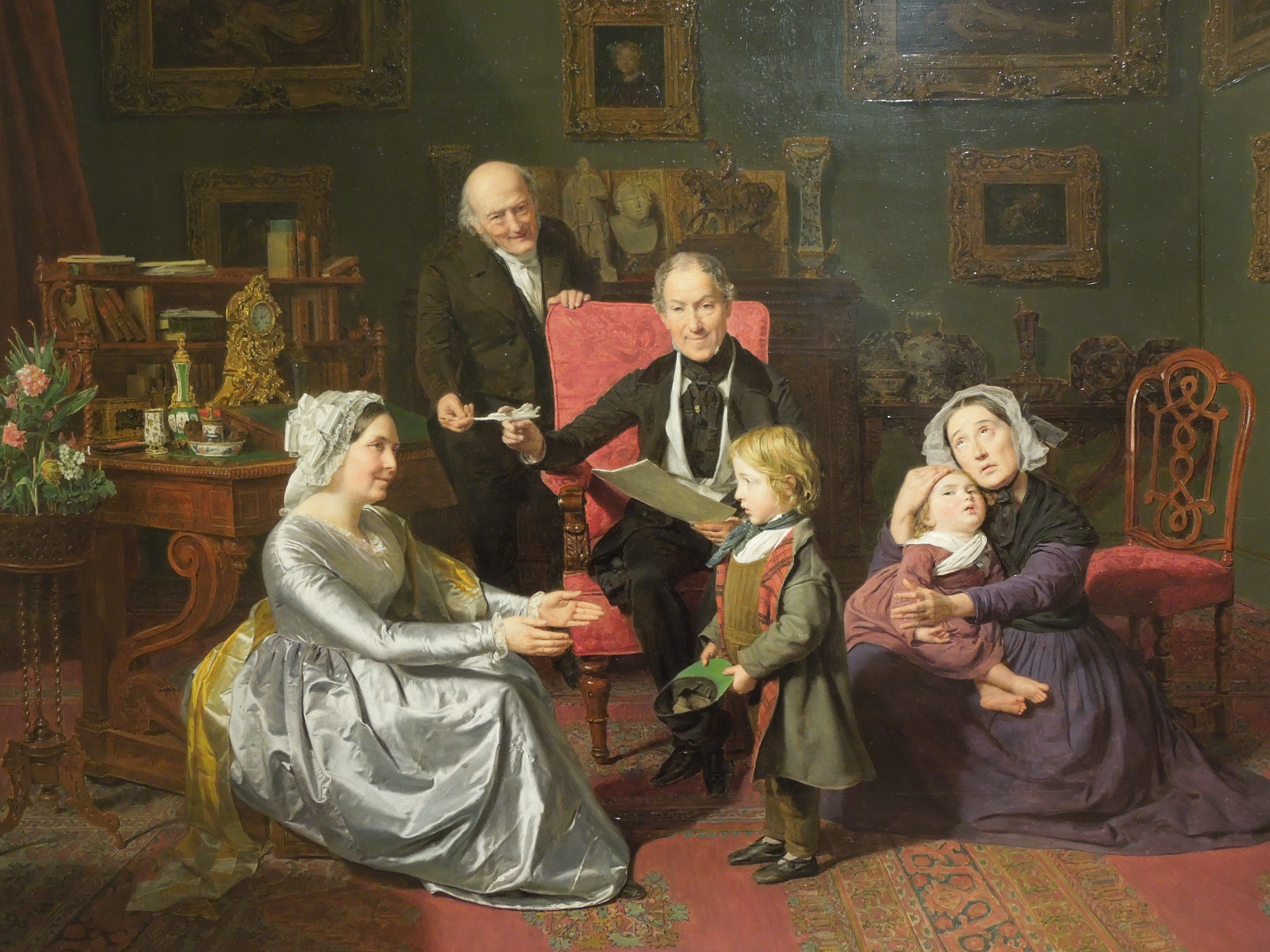 Ferdinand Georg Waldmüller - The Adoption, 1847, oil on wood